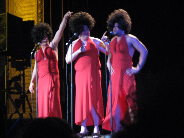 These were the dancers at the intro of the Razzies, 2007.